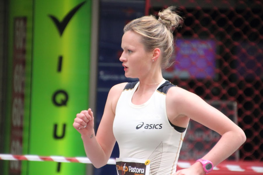 Julia Takacs in Spanish Race Walking Championship . March 3, 2013, Murcia.